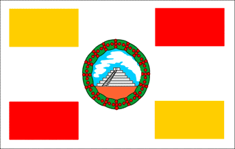 Made by Jaume Ollé. GFDL, Flag of Huehuetenango Department, Guatemala